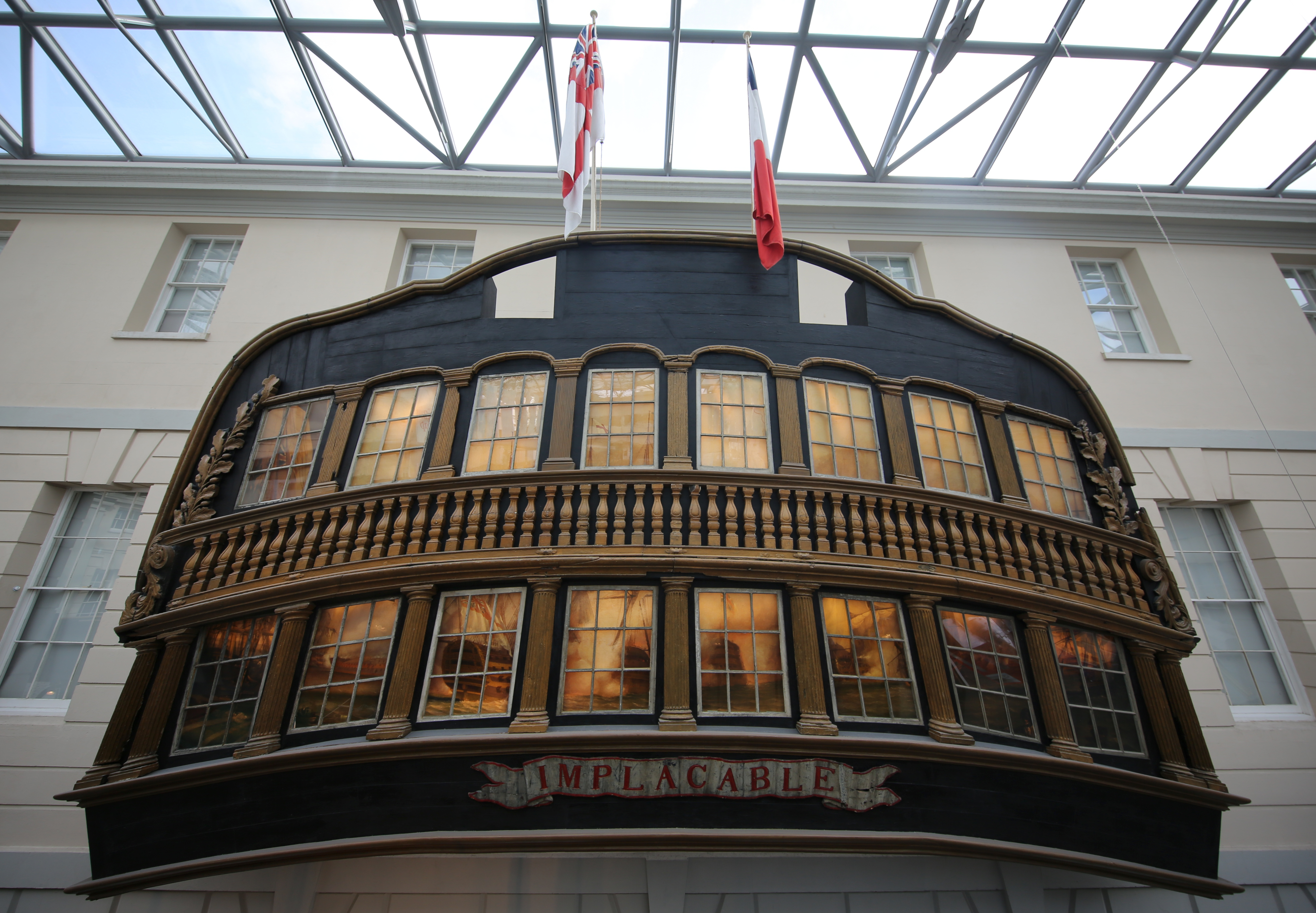 Photo of the stern of HMS Implacable (1805) at the National Maritime Museum